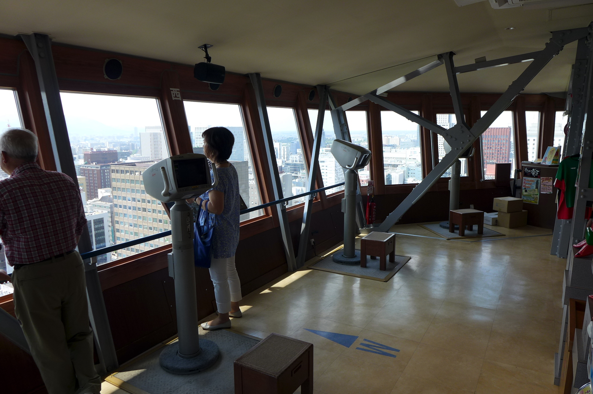 Sapporo Television Tower Observation Deck